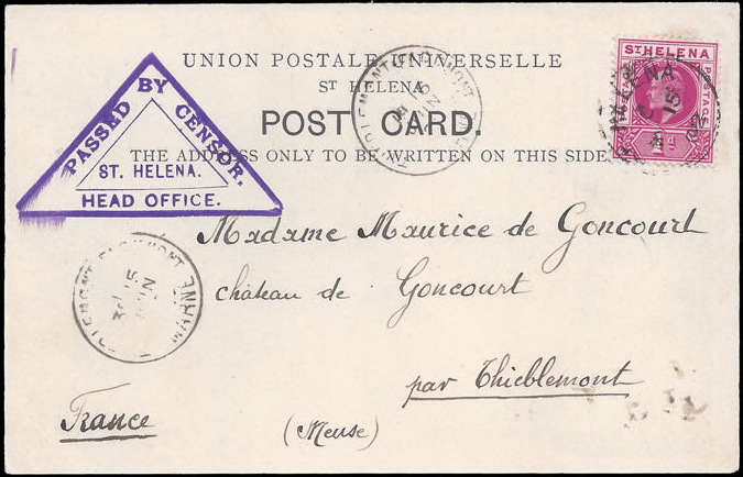 1902 postcard from St Helena to France with St Helena postal censor head office PASESD BY CENSOR handstamp